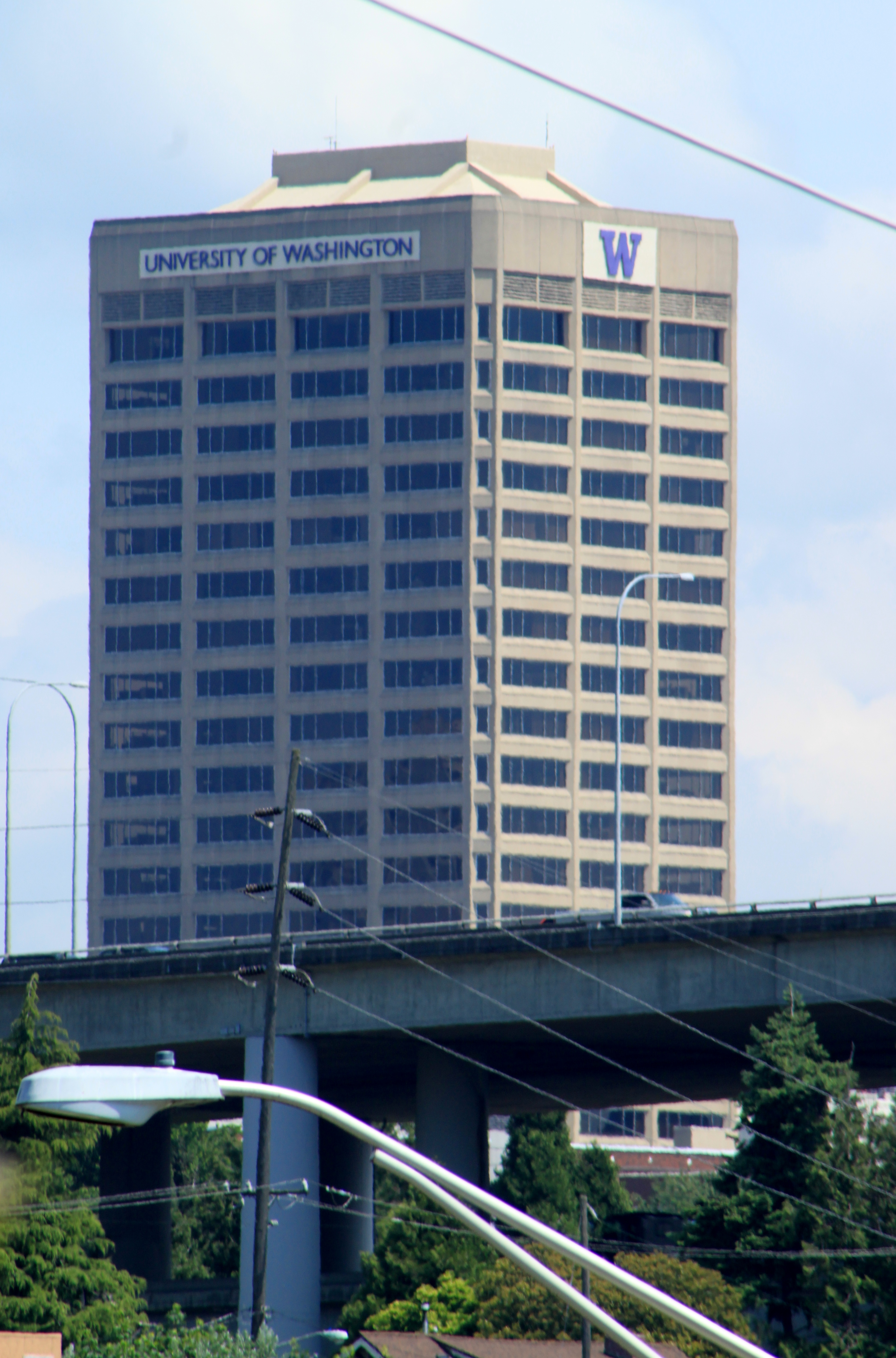 UW Tower from 38th & Eastern